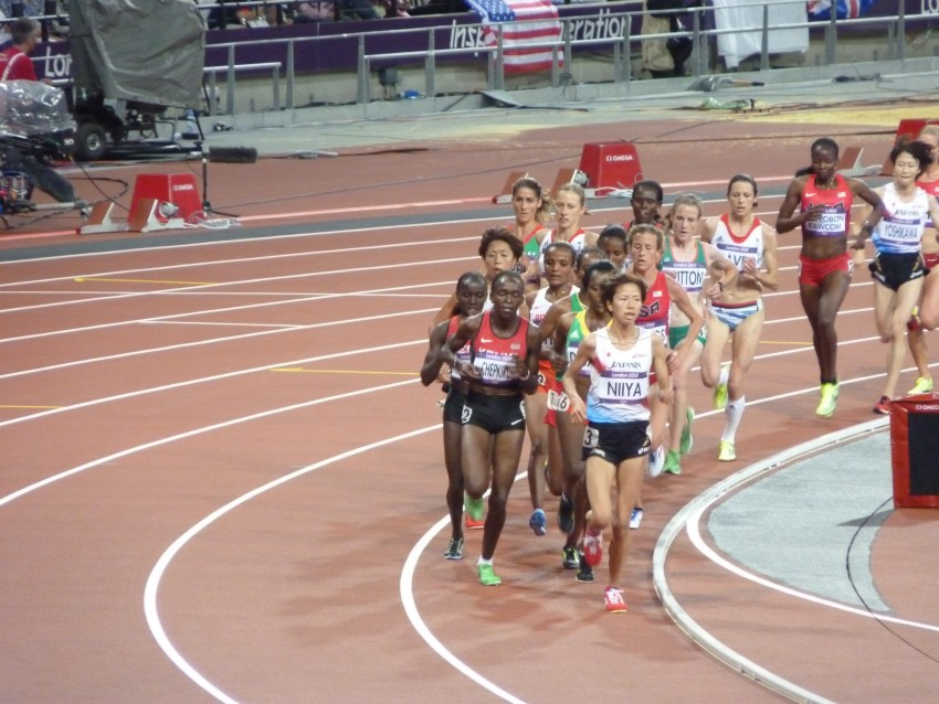 Eventuall winner Tirunesh Dibaba of Ethiopia lying second. Olympic Stadium, Friday 3 August, London Olympic Games. Joyce Chepkirui, Hitomi Niiya